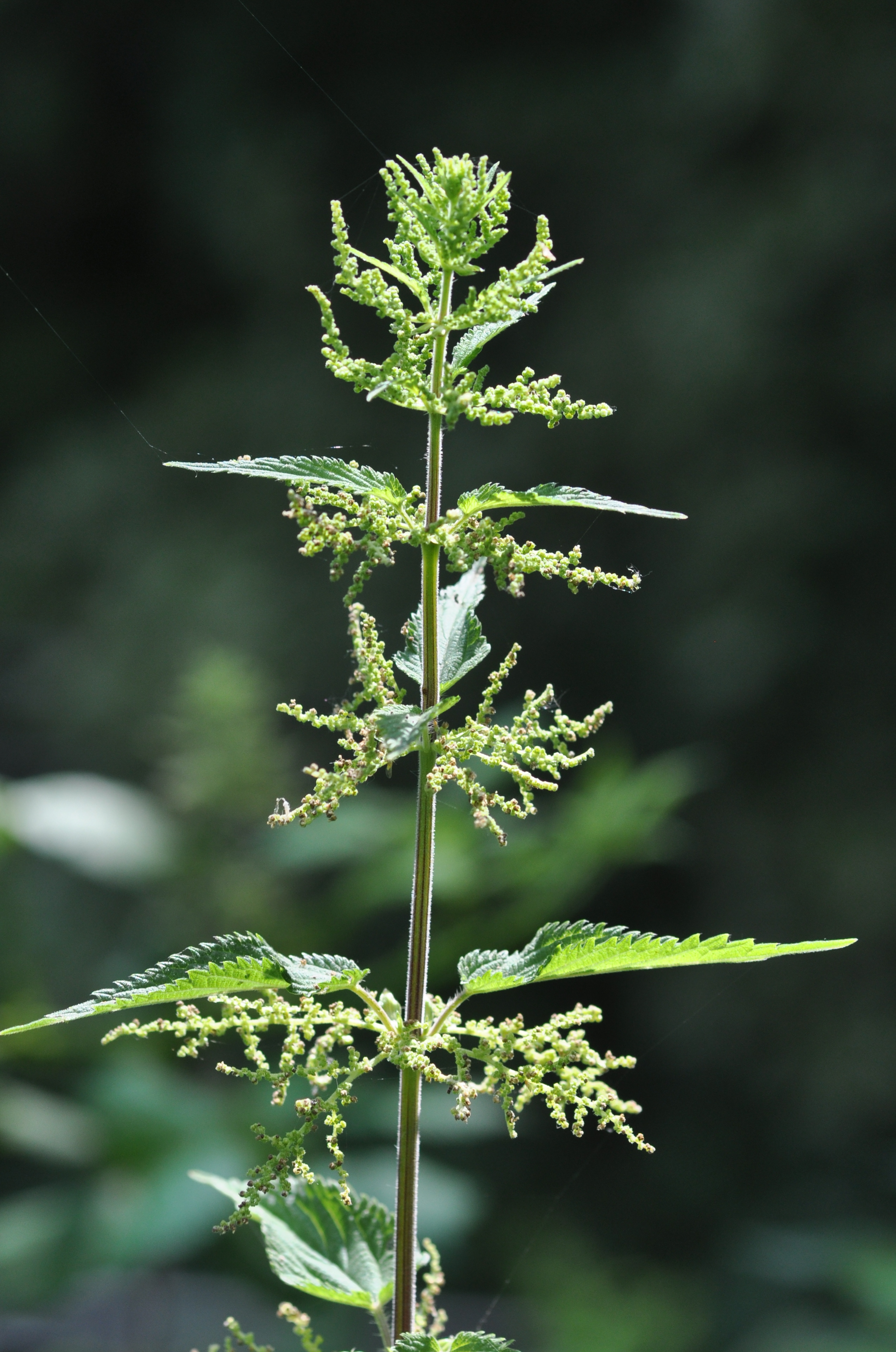 Stinging nettle in Bahrenfeld, Hamburg.